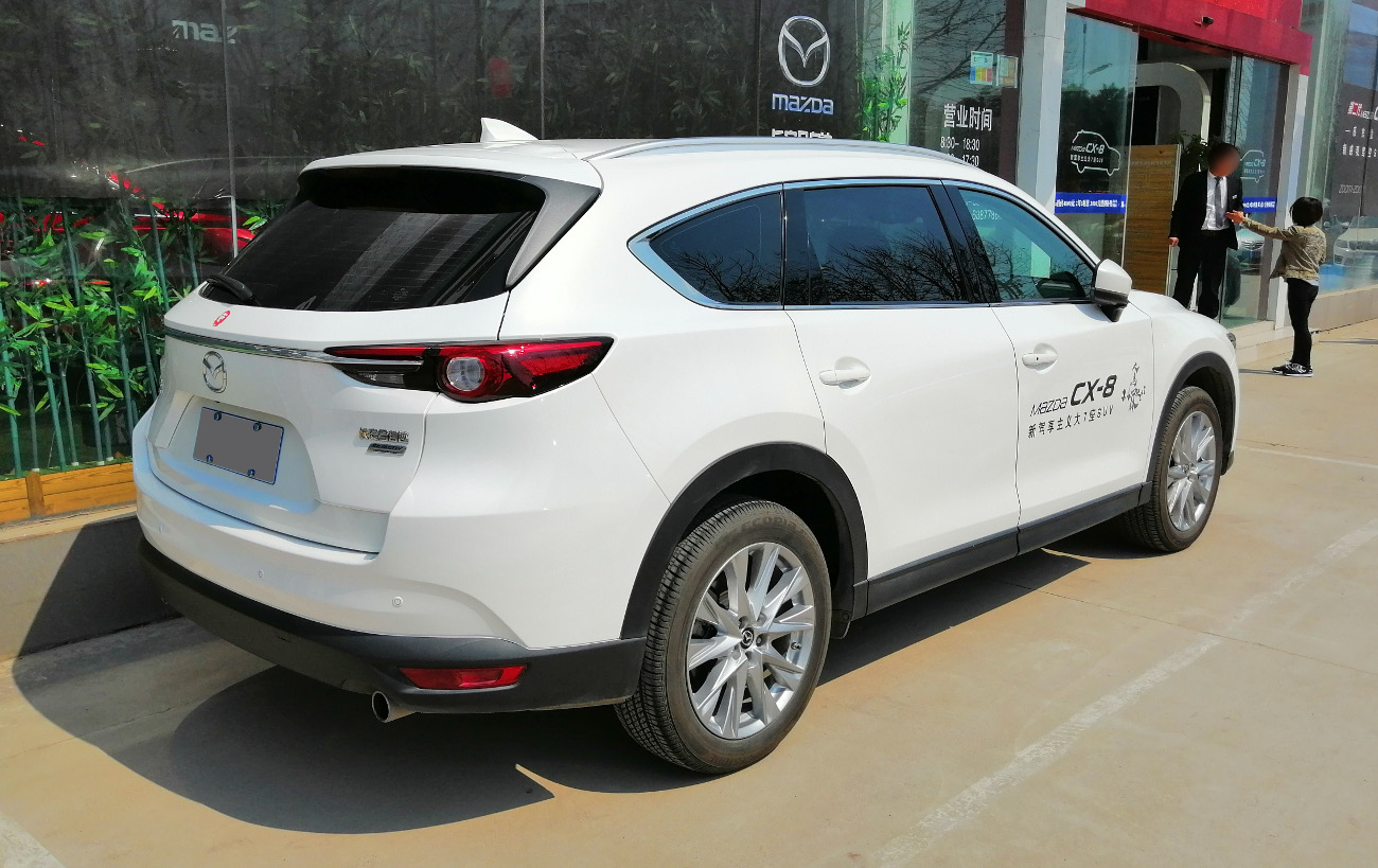 Mazda CX-8 photographed in Hefei, Anhui province, China.